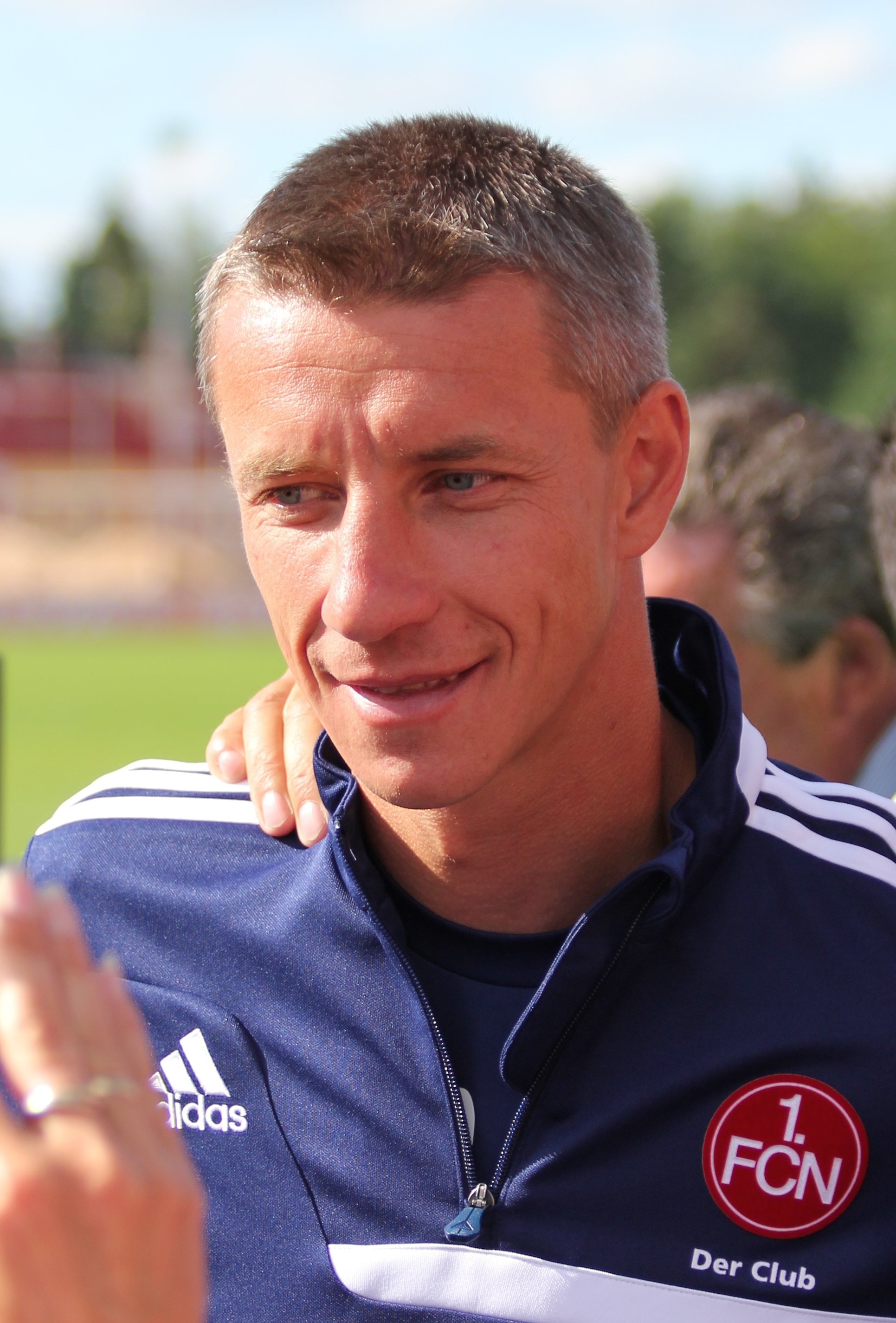 Marek Mintál, assistant coach for German side 1. FC Nürnberg, 2012/13 season, first training session